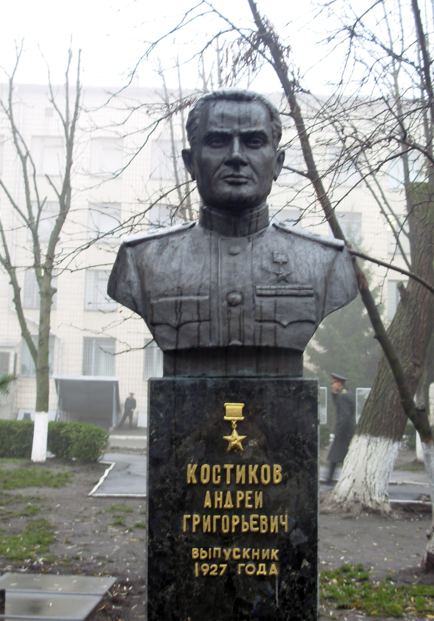 Monument to Andrei Kostikov at Military Іnstitute of Тelecommunications and Іnformation Technology, Kyiv